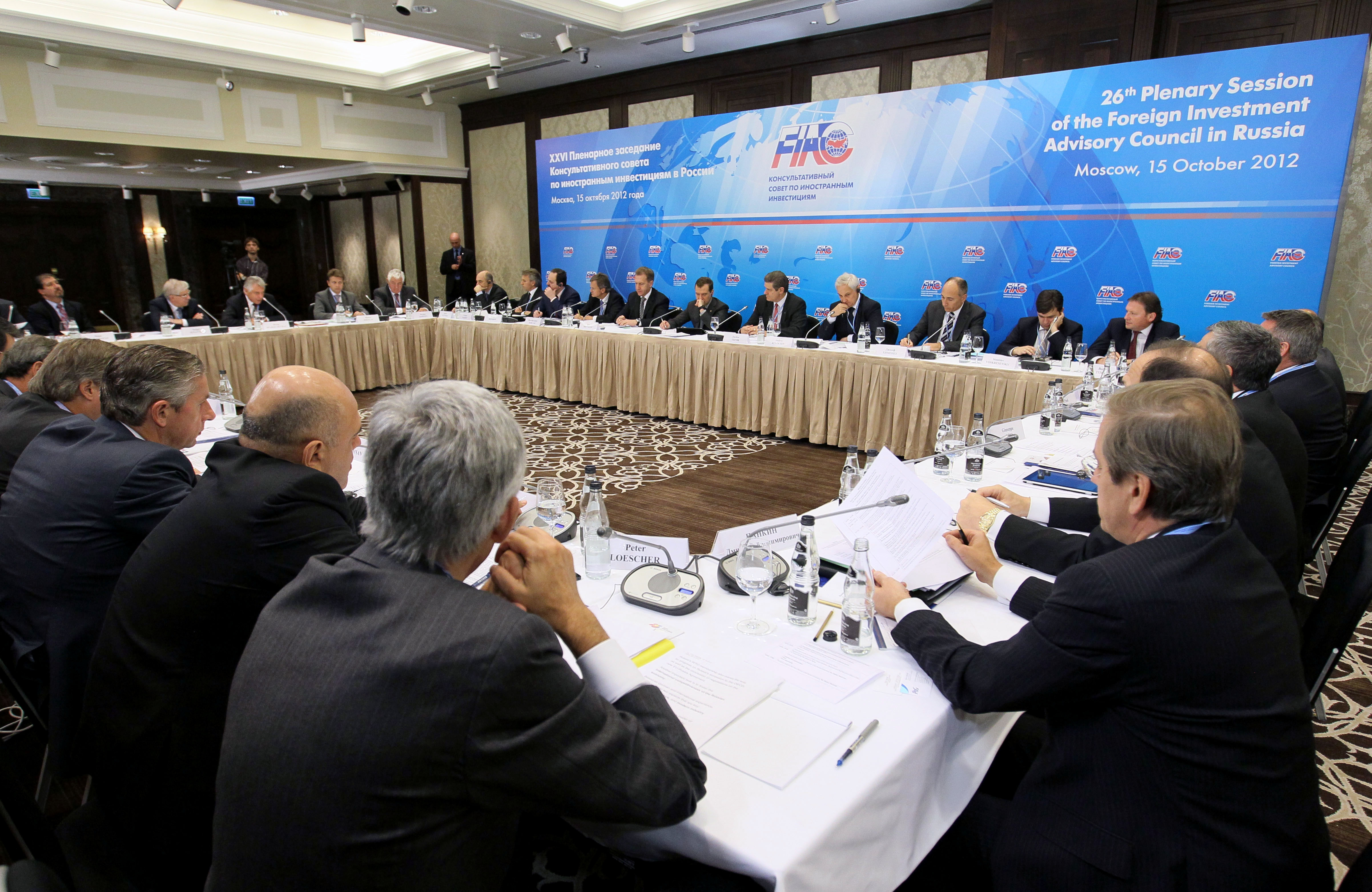 Russian Prime Minister Dmitry Medvedev at the 26th meeting of the Foreign Investment Advisory Council, Hotel Baltschug Kempinski Moscow.